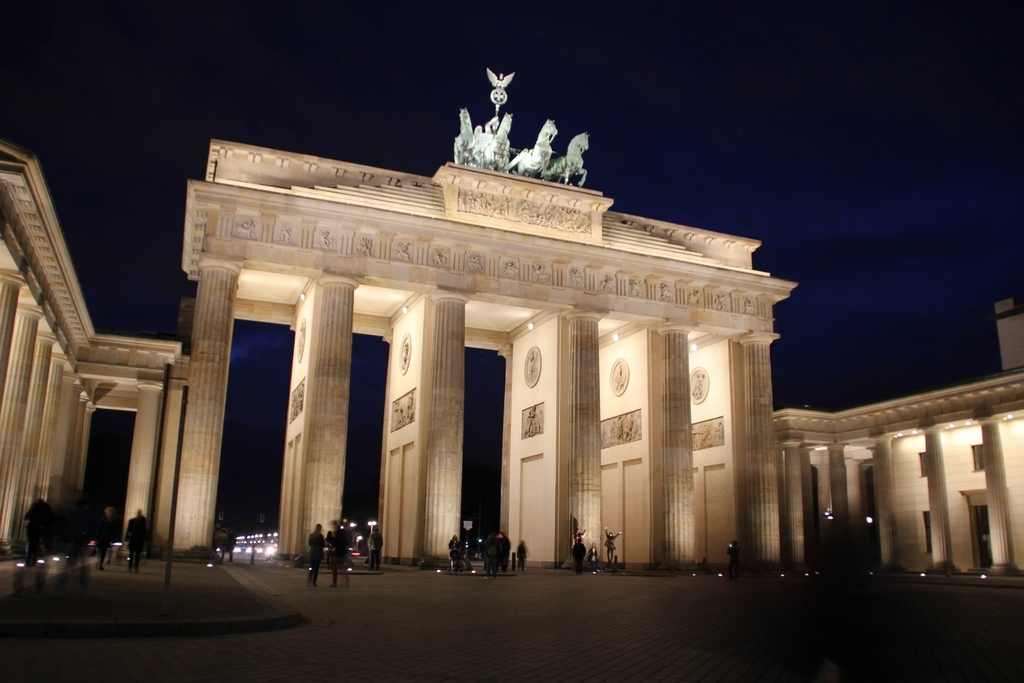 The Brandenburger Gate in 2014 - Photo Laurence Meijer